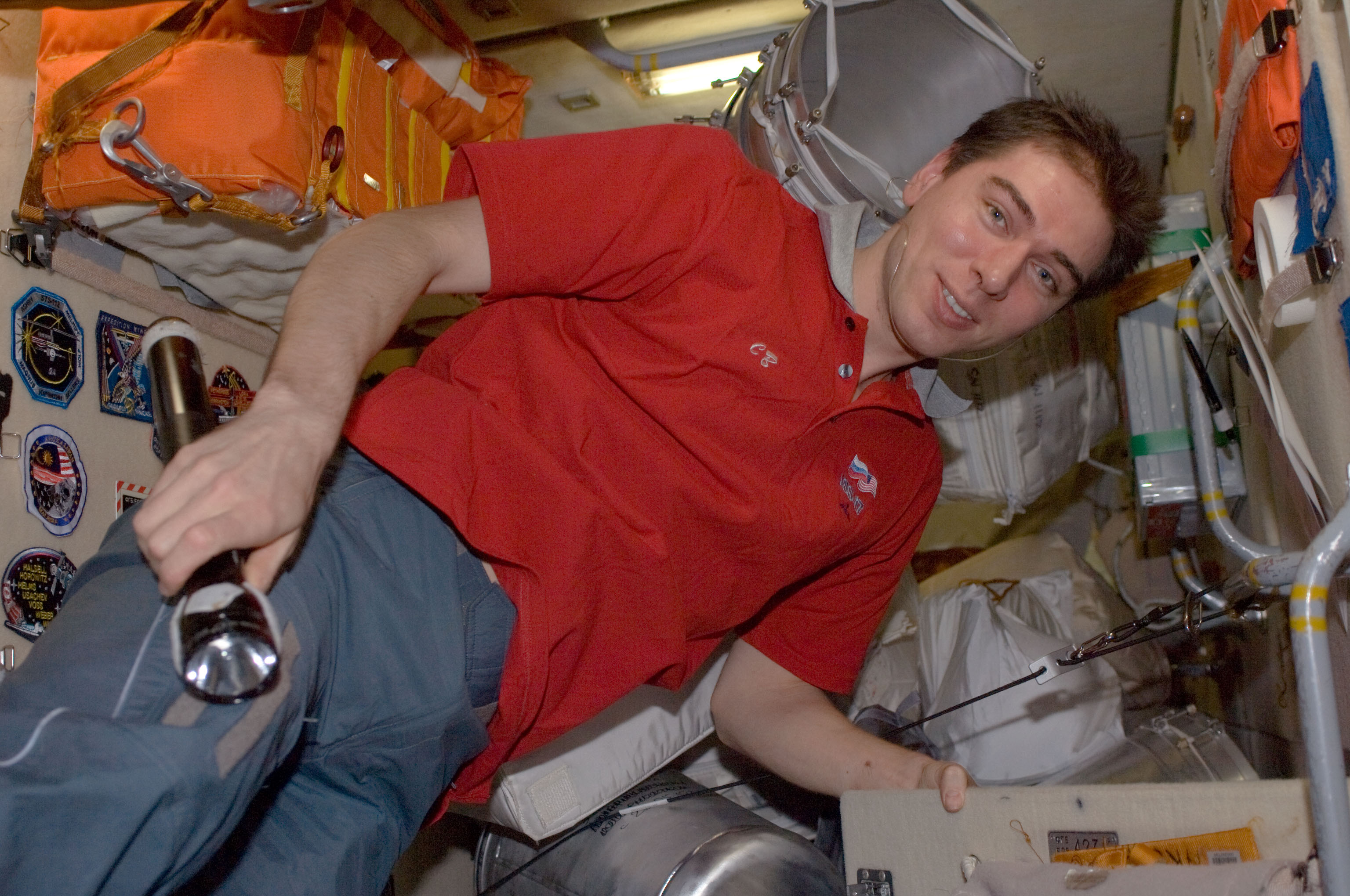 Russian Federal Space Agency cosmonaut Sergei Volkov, Expedition 17 commander, takes a moment for a photo as he works with equipment in the Zarya module of the International Space Station.